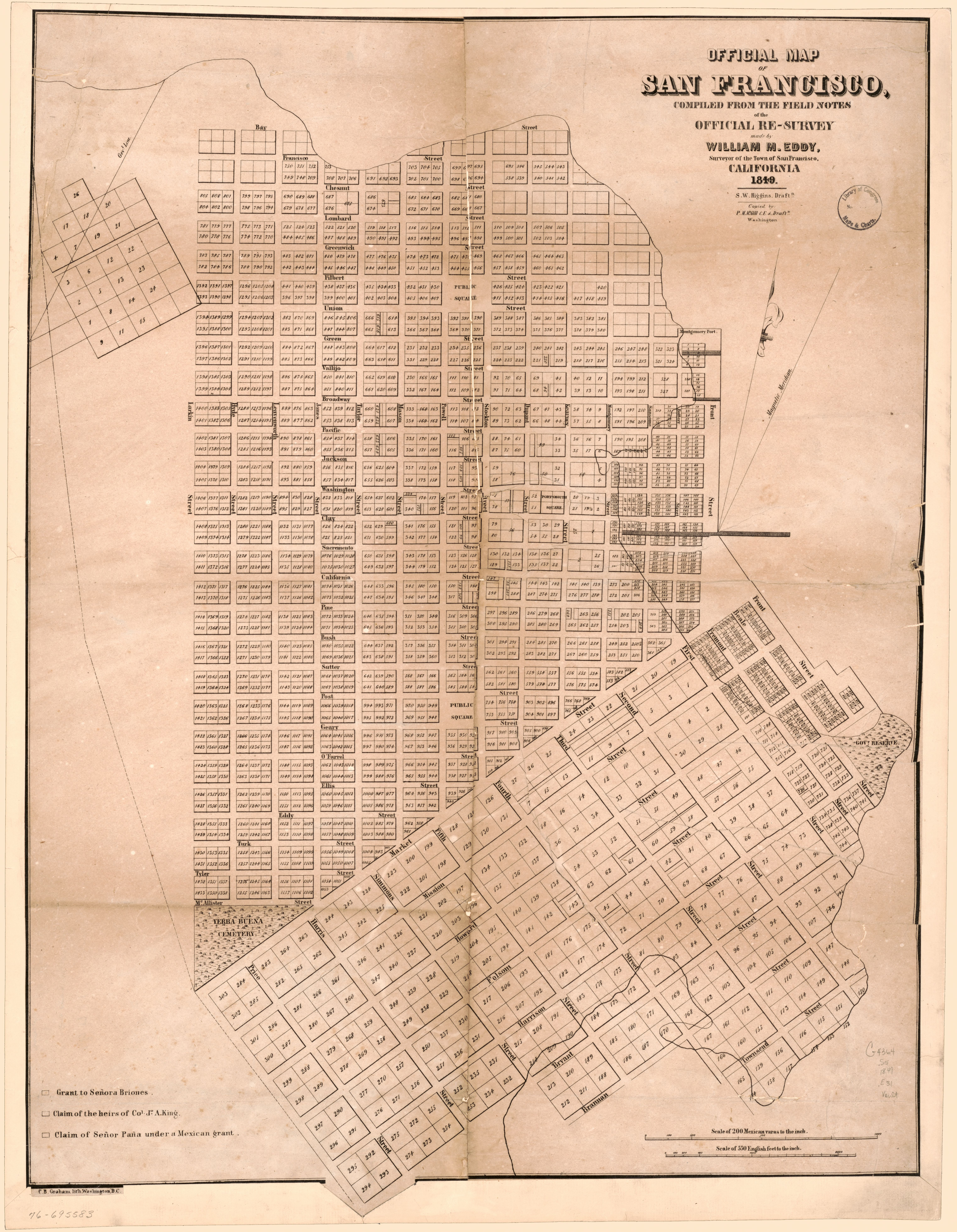 Scale 1:6,600. Cadastral map. LC copy designed to show by color land grant and claims. LC copy not colored. Vault AACR2